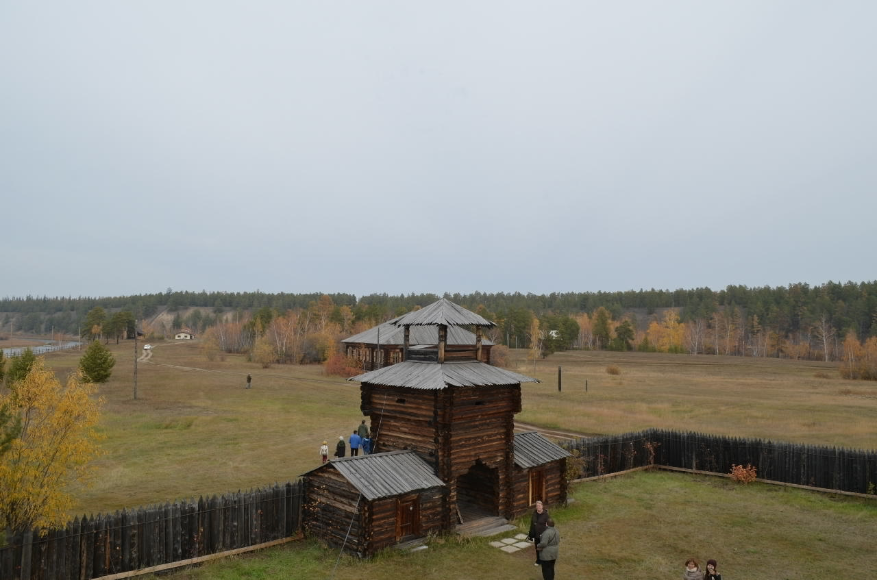 This photos are made during cruise Yakutsk — Lеnskiye Shchyoki, Lena Cheeks — Yakutsk (with arrival in Mirny), 05.09−17.09.2016